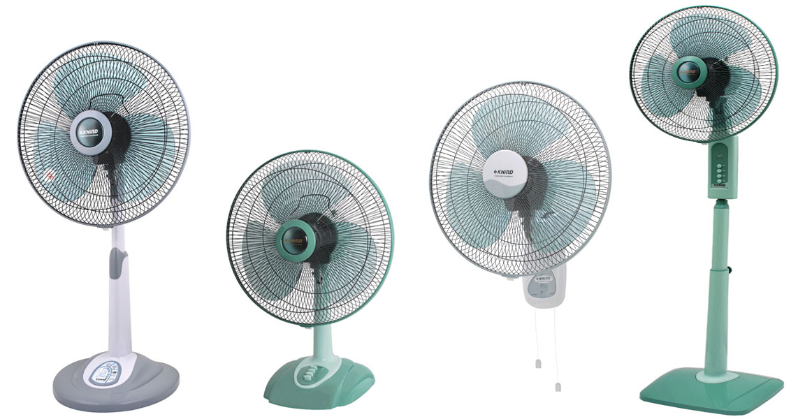 Main series for fans produced by Khind